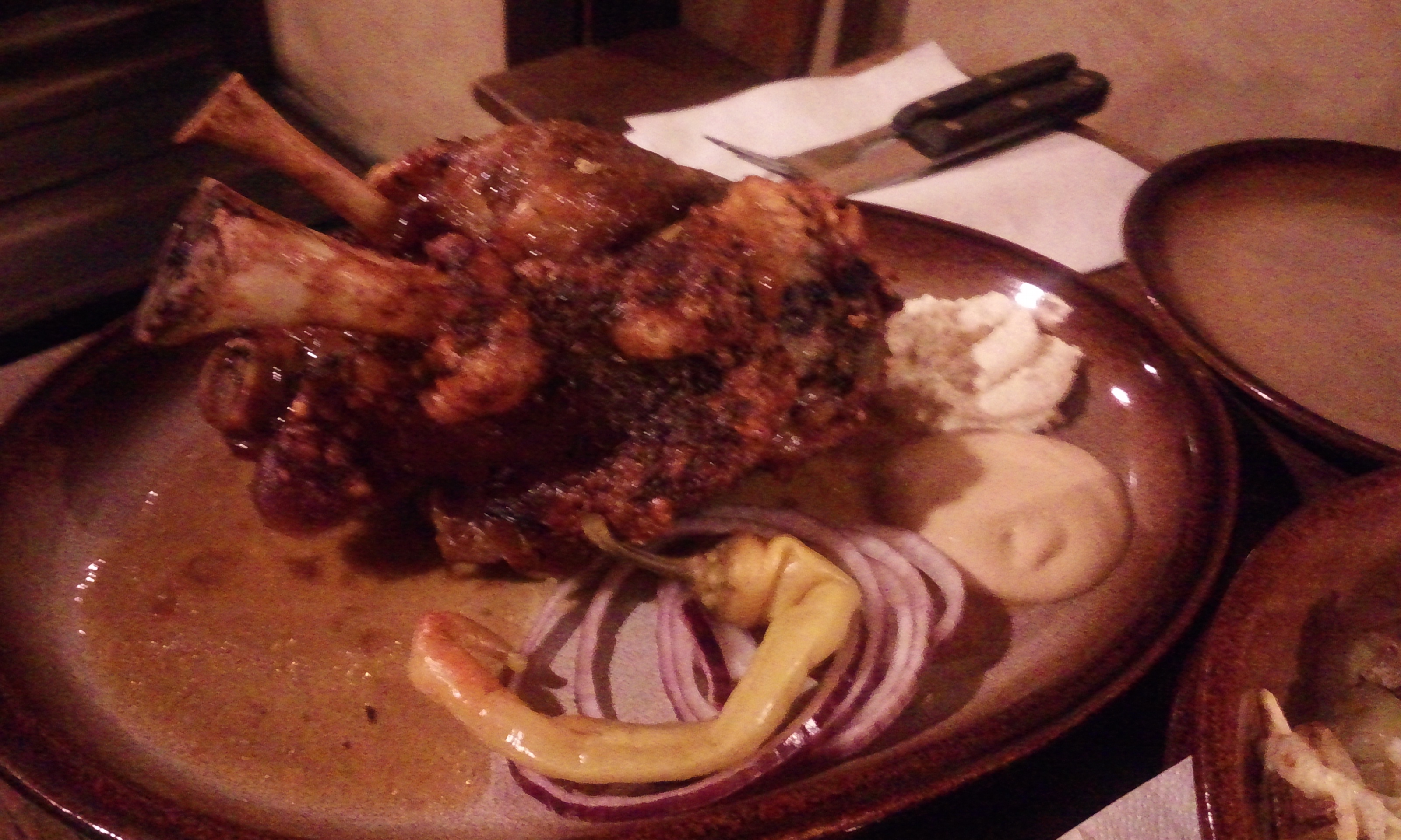 Koleno, which is Czech styled pork meat cusine, was taken on January 23rd, 2015 in Prague, Czech Republic.